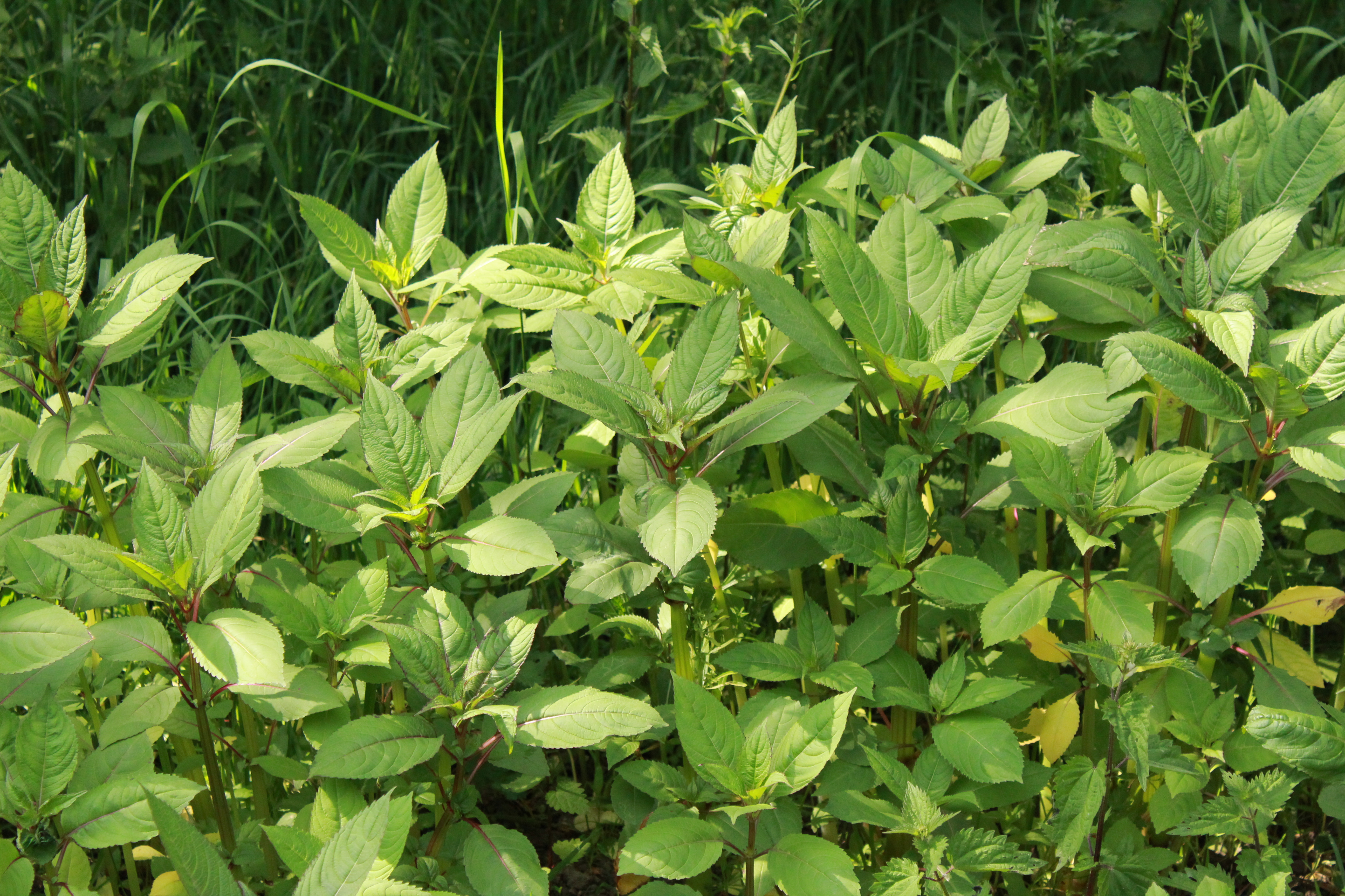 Springbalsemien in het zuidelijk deel van het Purmerbos. Wetenschappelijke benaming: Impatiens glandulifera